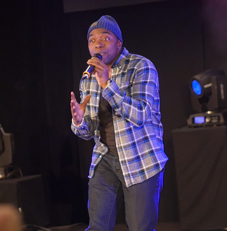 Jean-Marc-Anthony Kabeya, singer of the Pokemon theme, during the HeroFestival, in november 2016.